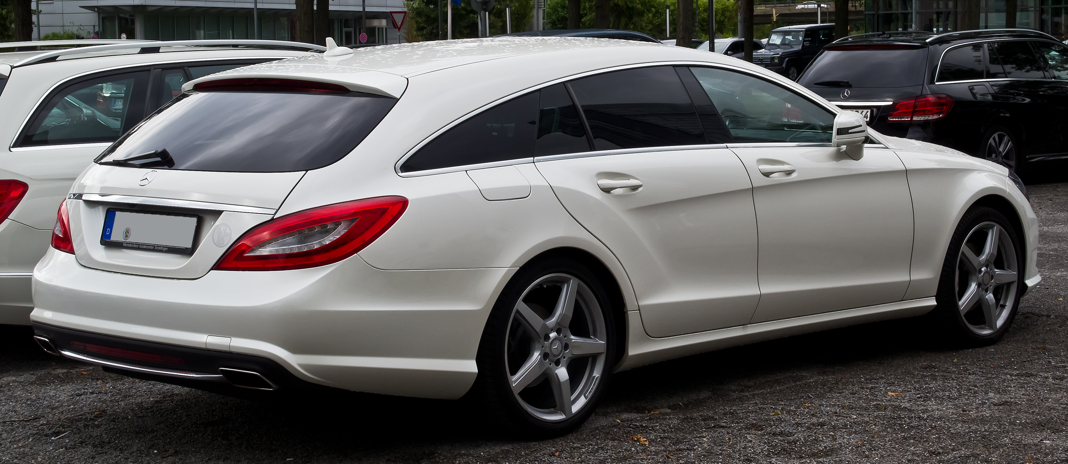 Mercedes-Benz CLS 350 CDI Shooting Brake Sport-Paket AMG (X 218)